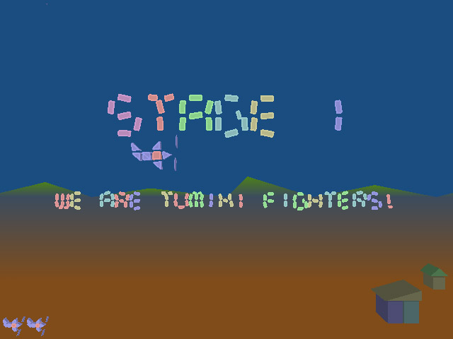 Screenshot of the freeware video game TUMIKI Fighters